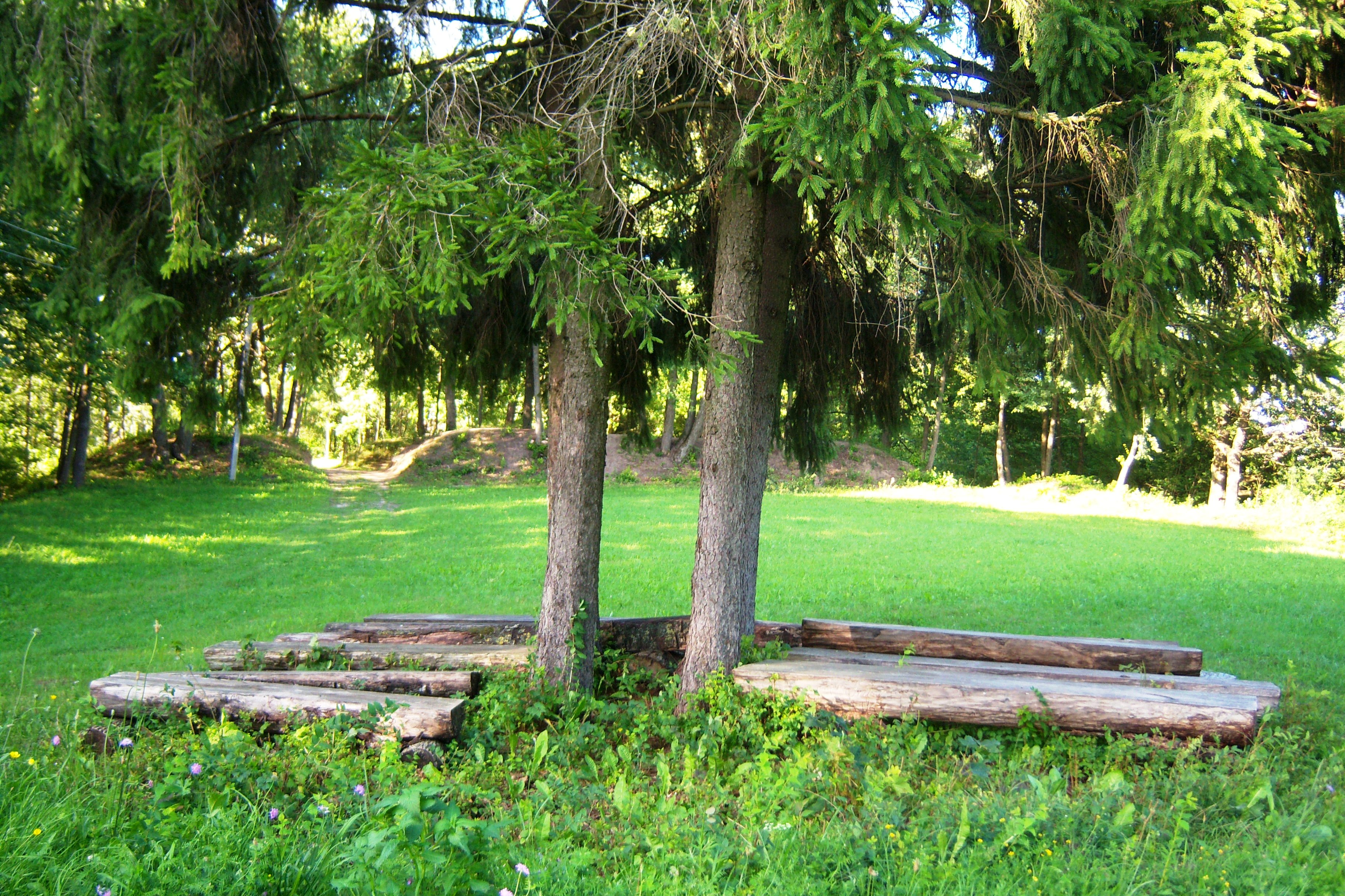 Gėluva hillfort, Raseiniai district, Lithuania